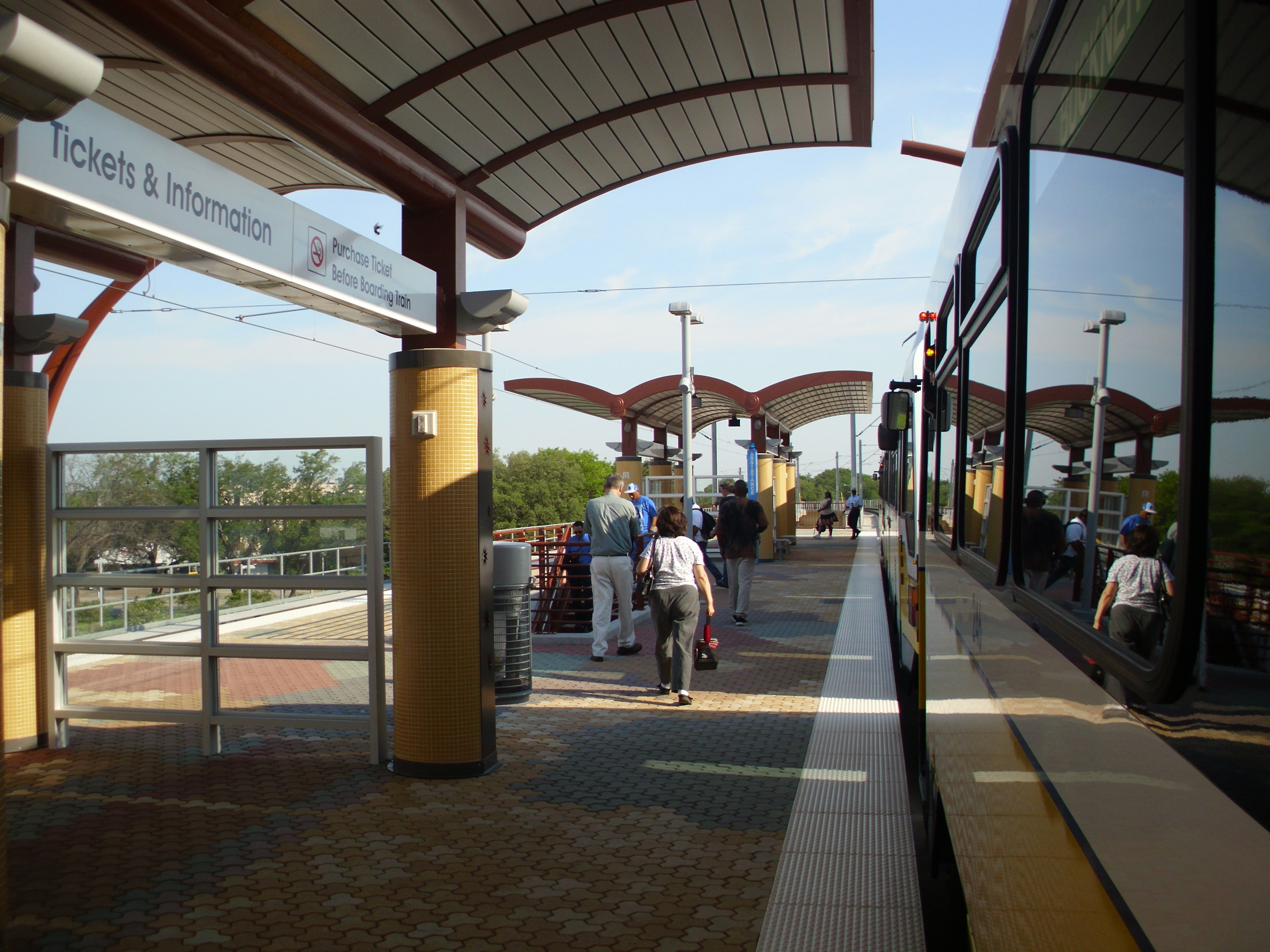 Riders boarding the Northbound Green Line light rail.